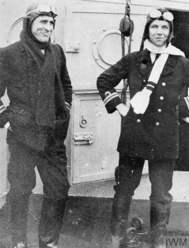 Lieutenant Rutland of Jutland and Lieutenant Gerald Edward Livock on the HMS ENGADINE, 1916